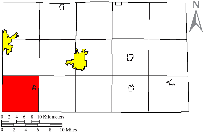 Made by the US Census and modified by myself